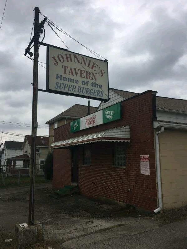 Jonnies Tavern in San Margherita, OH